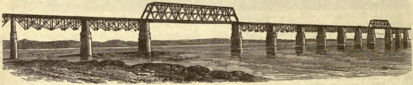 Woodcut/drawing of a railroad bridge designed by Albert Fink at Louisville, Kentucky.